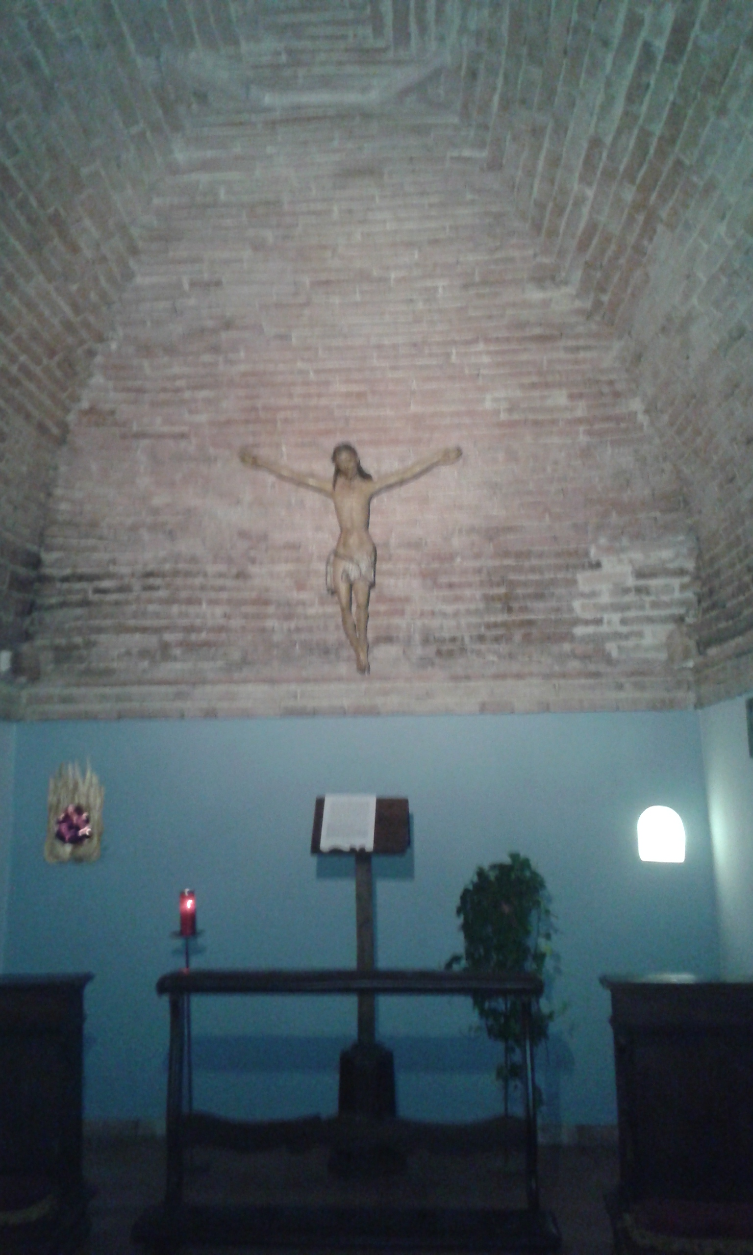 uhooooooooooooo